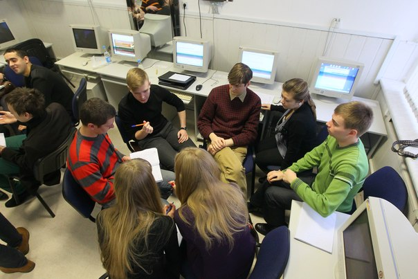 Дискуссия участников программы "Умные сети"